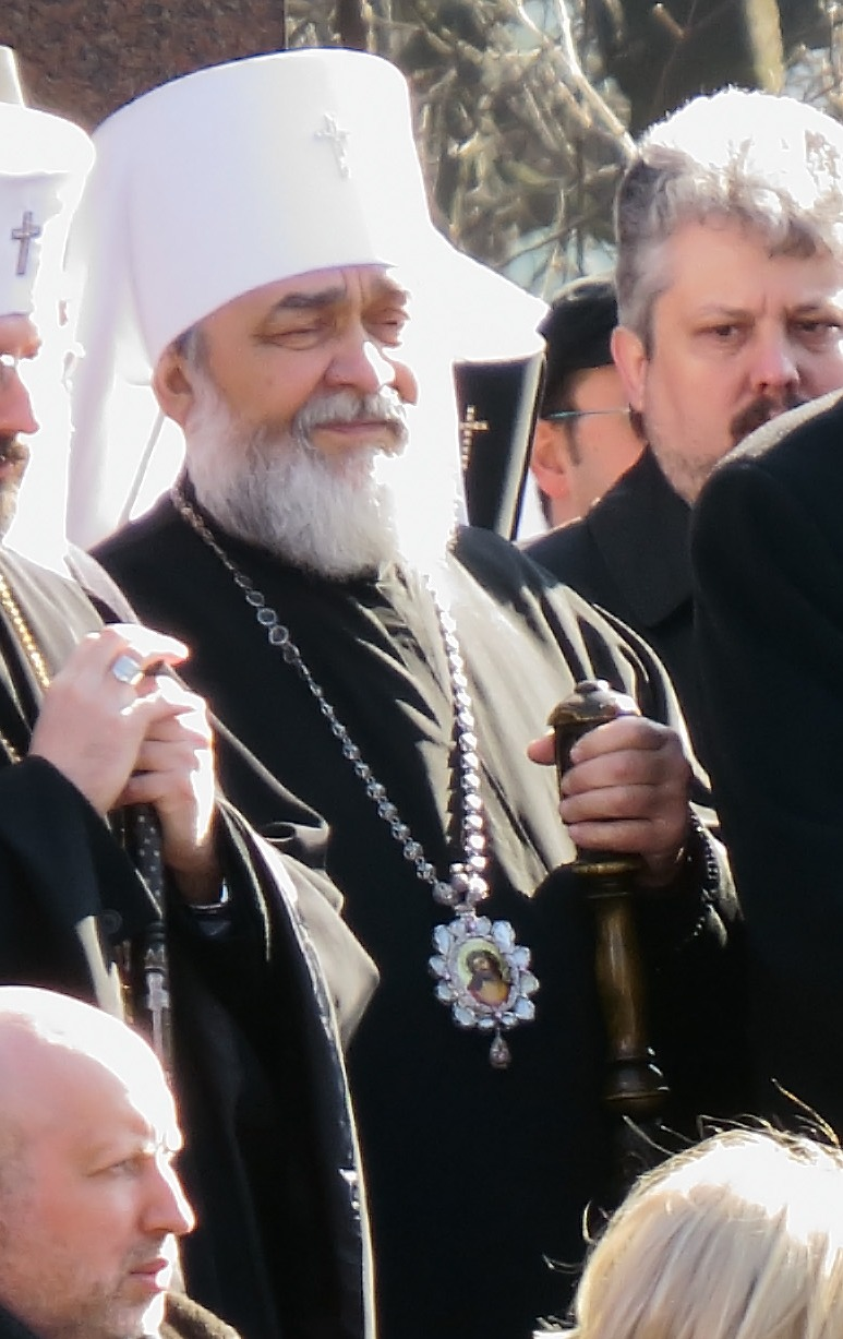 Methodius (Kudriakov), head of the non-canonical Ukrainian Autocephalous Orthodox Church